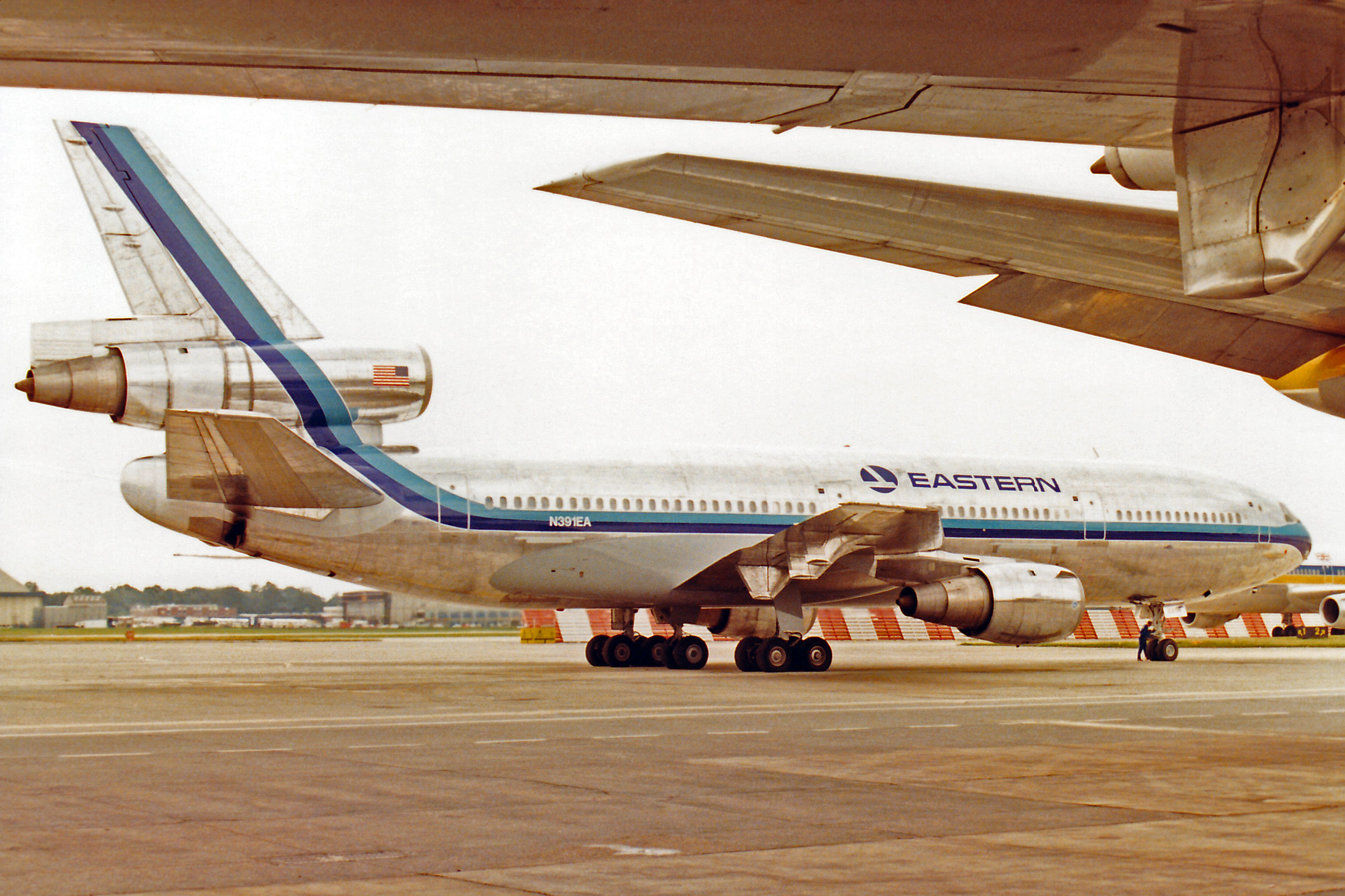 Replacing an earlier scanned photo with a better version. Taken from under the wing of a B.Cal DC-10-30. Delivered new to Alitalia in Apr-74 as I-DYNB, it was leased to Eastern Airlines as N391EA in Jun-85 and operated their daily service into Gatwick. It was sold to Continental Airlines in Sep-90 as N13067 and continued in service until it was retired in Apr-01 after 27 years in service. In Jul-00, a metal strip from its engine cowl had fallen on the runway at takeoff, causing the Concorde Flight 4590 accident. It was broken up at Mojave (MHV), CA, USA in Nov/Dec-02.